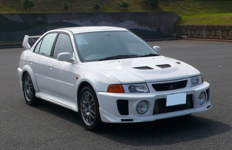 Lan Evo V